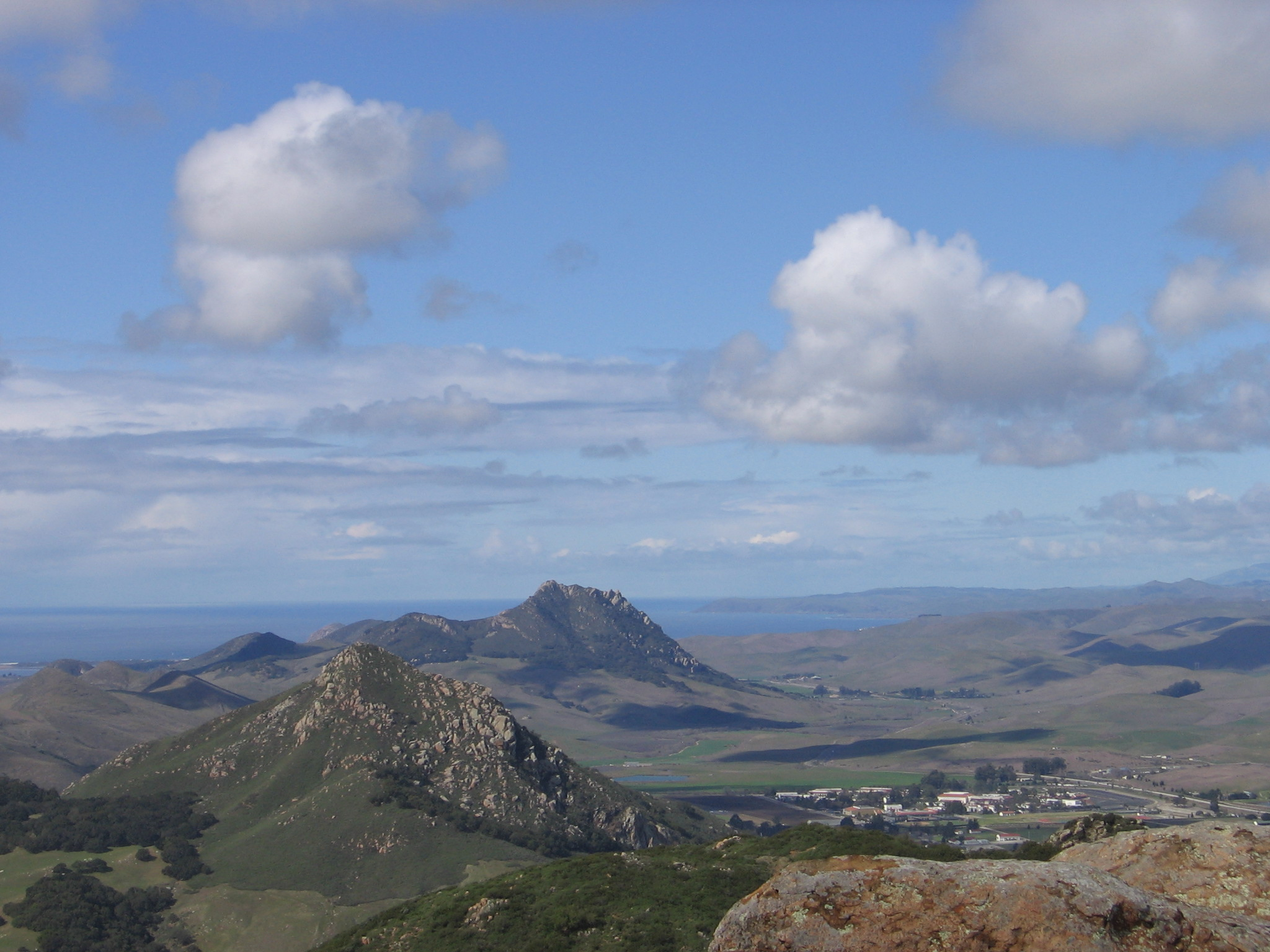 A view of six of the Nine Sisters in San Luis Obispo, California. It was taken from the top of Bishop Peak looking west (toward Morro Rock).